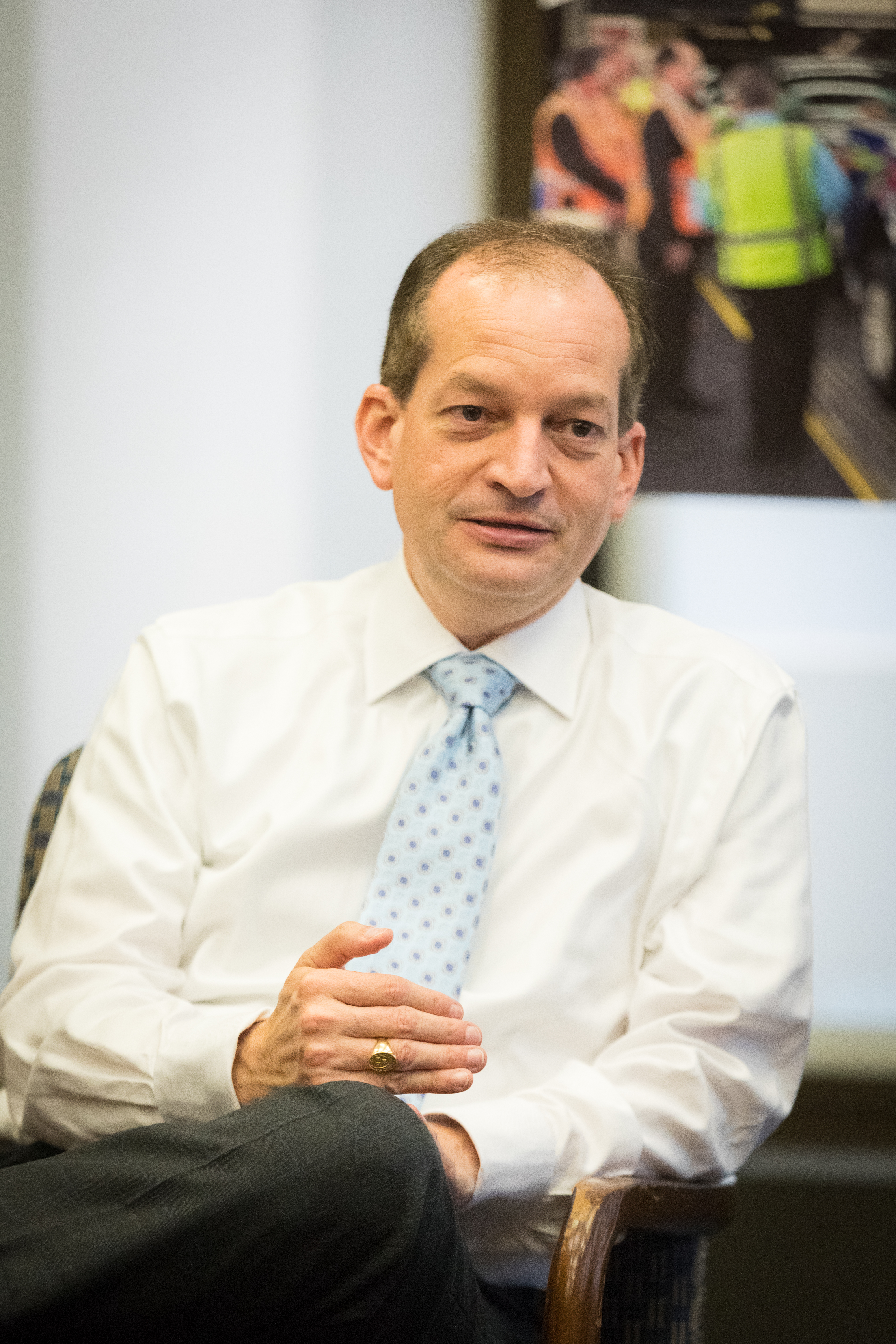 14 June 2017 - Washington, D.C. - U.S. Secretary of Labor Alexander Acosta meets with Apprentices from Mercuria Energy. Official Department of Labor Photograph*** Photographs taken by the federal government are generally part of the public domain and may be used, copied and distributed without permission. Unless otherwise noted, photos posted here may be used without the prior permission of the U.S. Department of Labor. Such materials, however, may not be used in a manner that imply any official affiliation with or endorsement of your company, website or publication. Photo Credit: Department of Labor Shawn T Moore